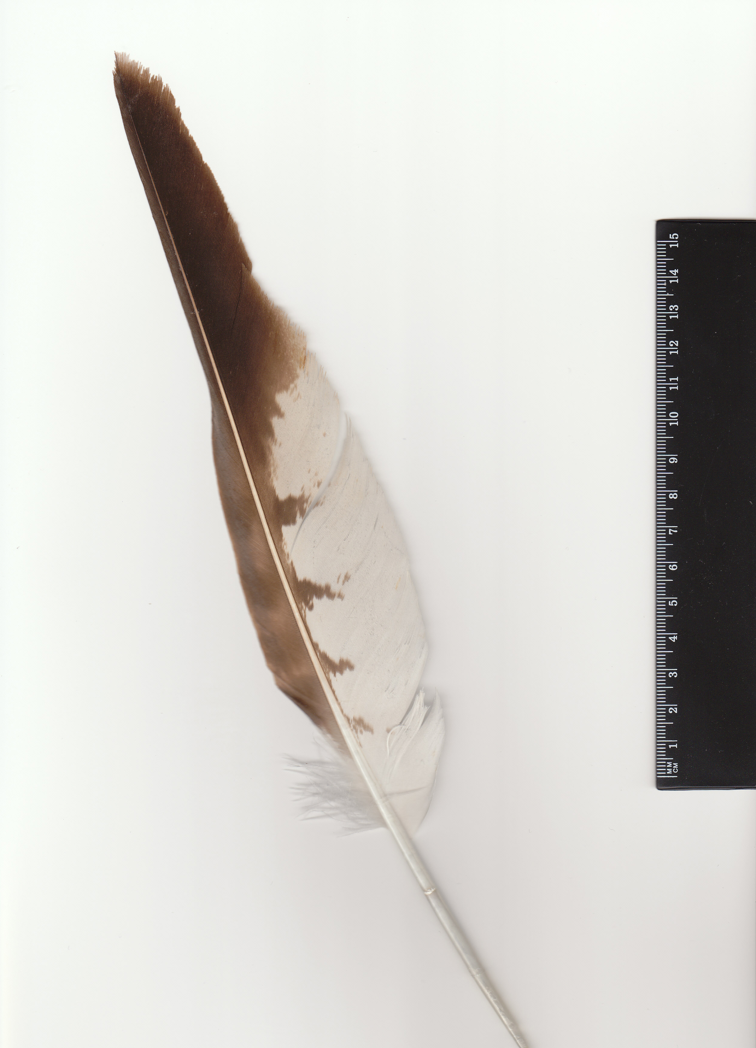 Scanned primary feather of Short-toed Eagle Circaetus gallicus. Taken in Lleida, northeast Spain.